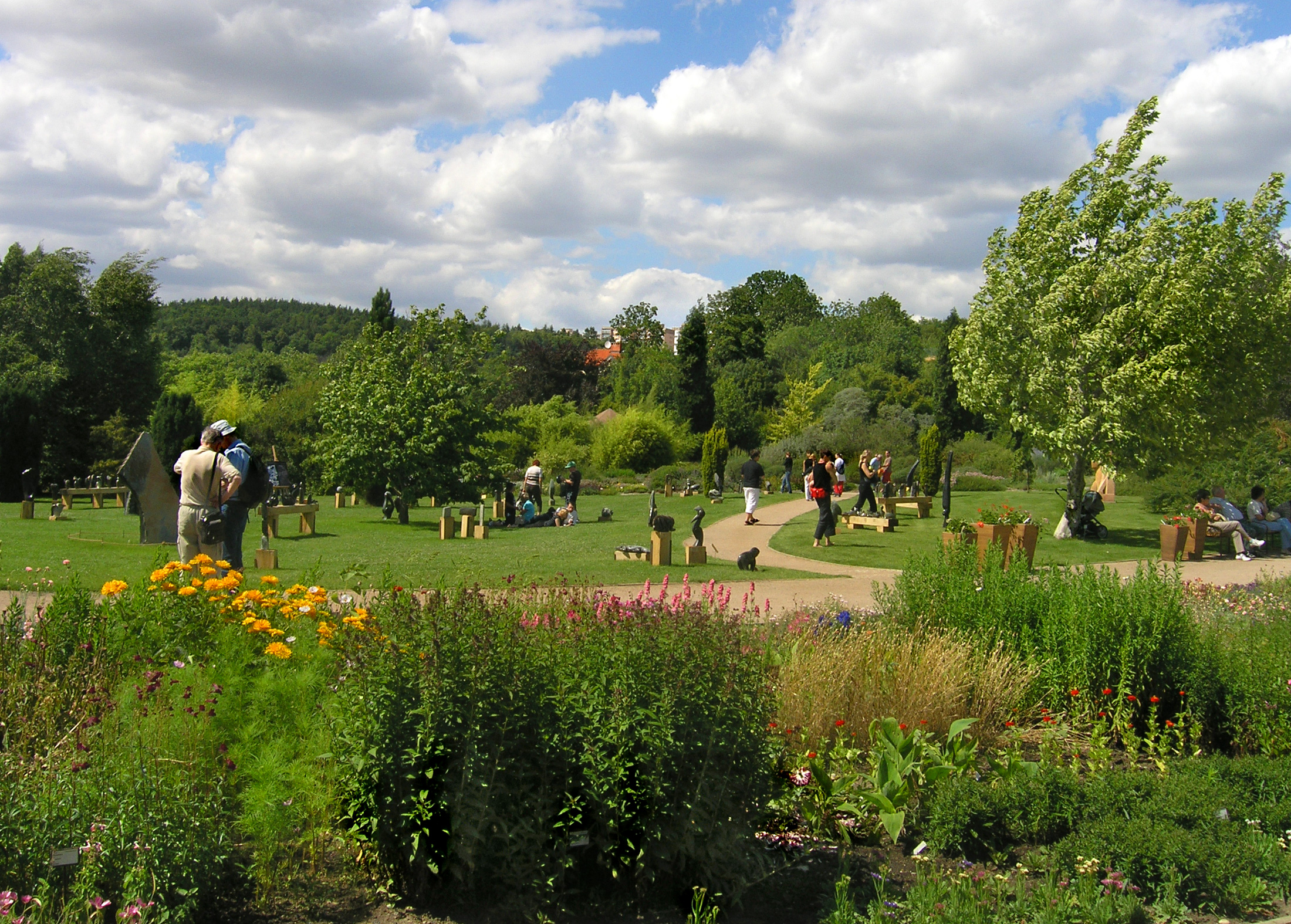 Prague Botanic Garden at Troja, Prague, with exposition Statues of Zimbabwe